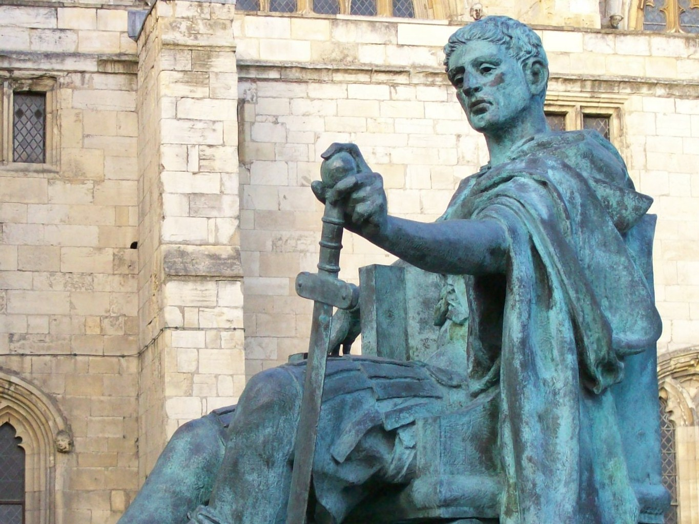 Statue of Constantine outside York Minster